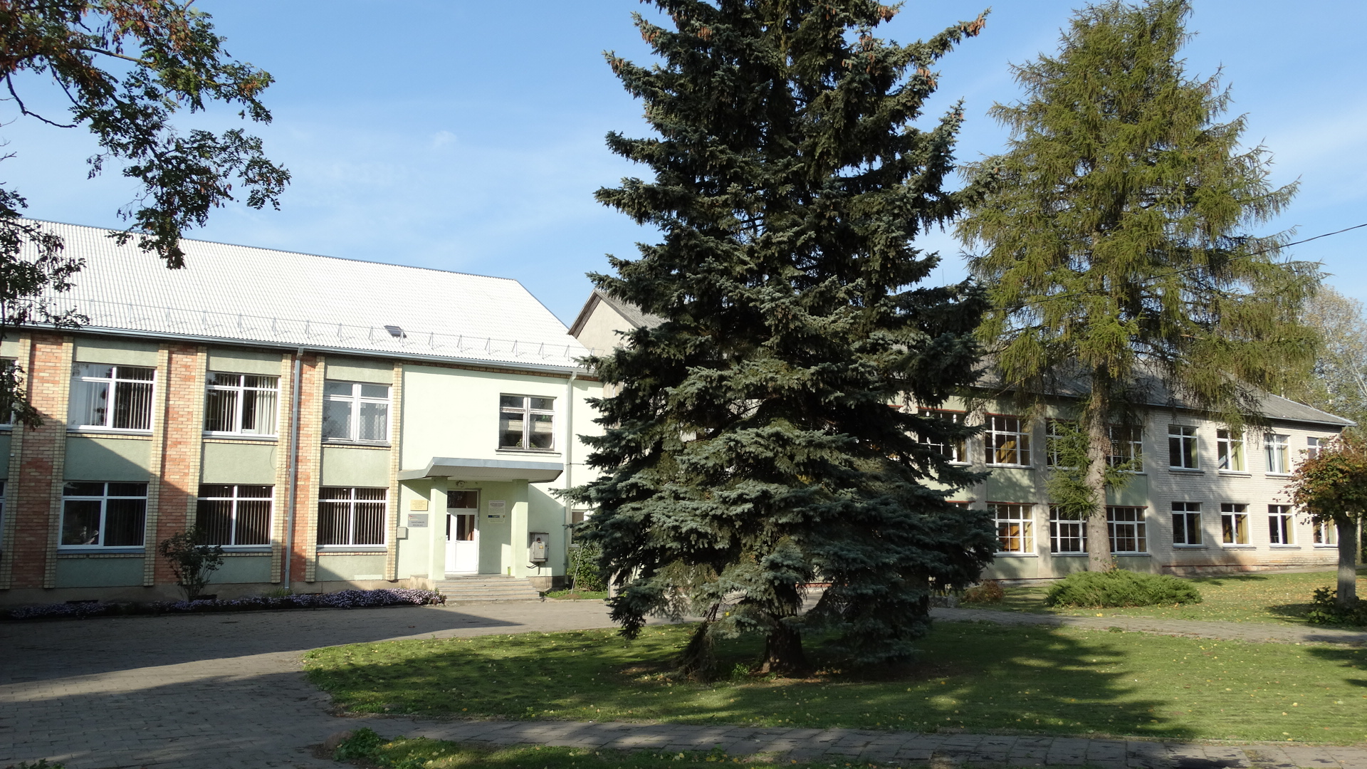 Santaika, Alytus district, Lithuania